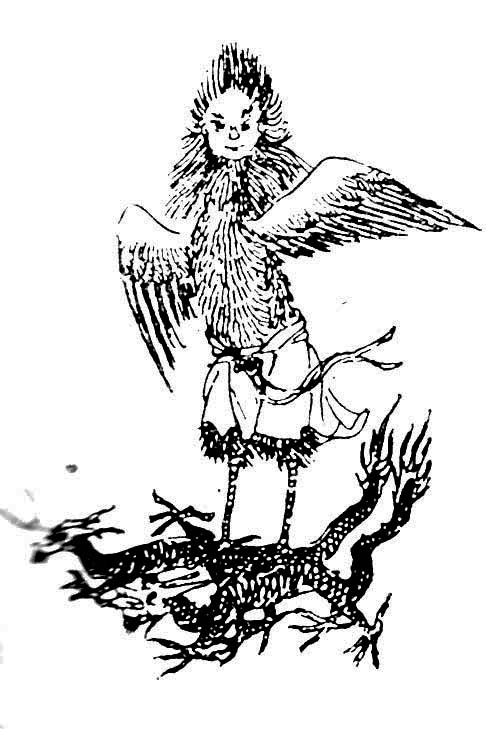 Goumang from the Sengaikyōzon (山海経存, Shan Hai Jing)